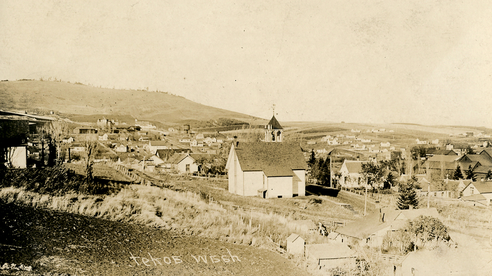 Panoramic Town View, Tekoa, Washington. c. 1915